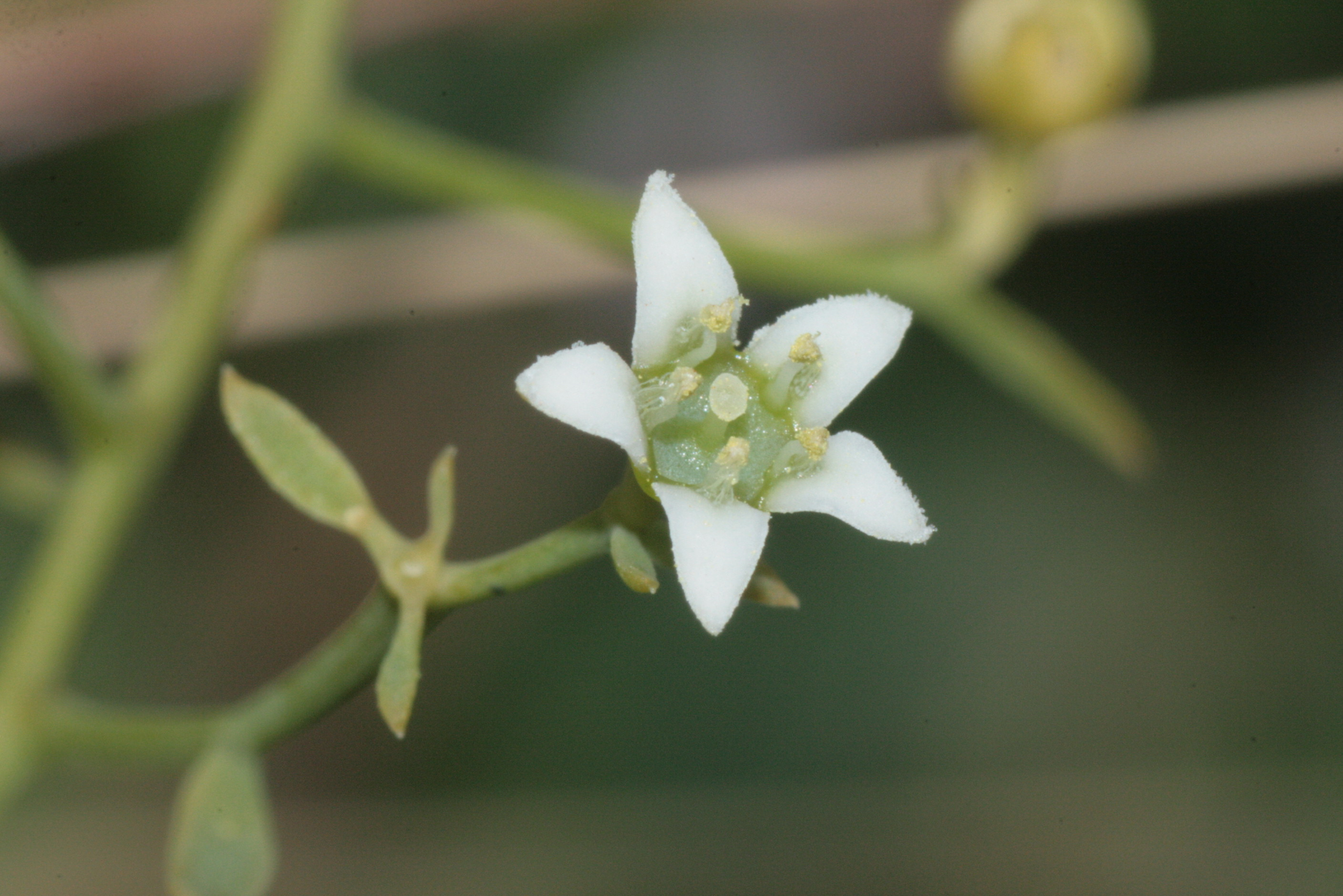 Thesium linophyllon